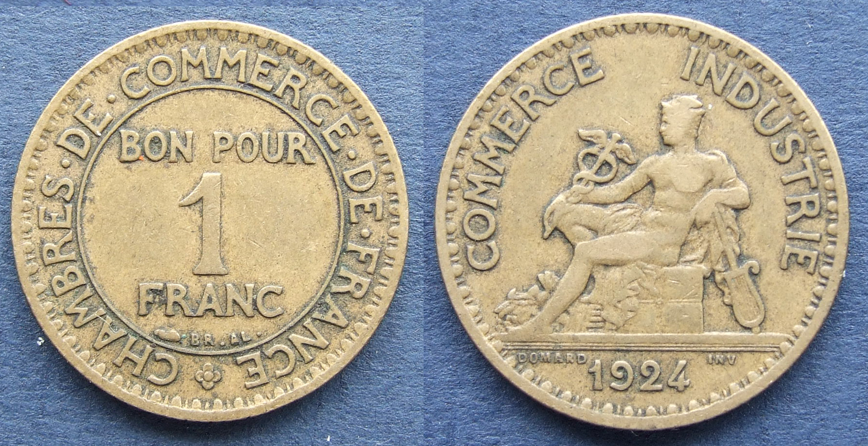 France 1 Franc 1924